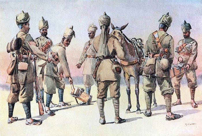 46th and 33rd Punjabis. Watercolour by Major Alfred Crowdy Lovett, 1910. Published in MacMunn & Lovett, Armies of India, 1911.